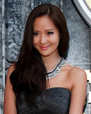 Aimee Yun Yun Sun